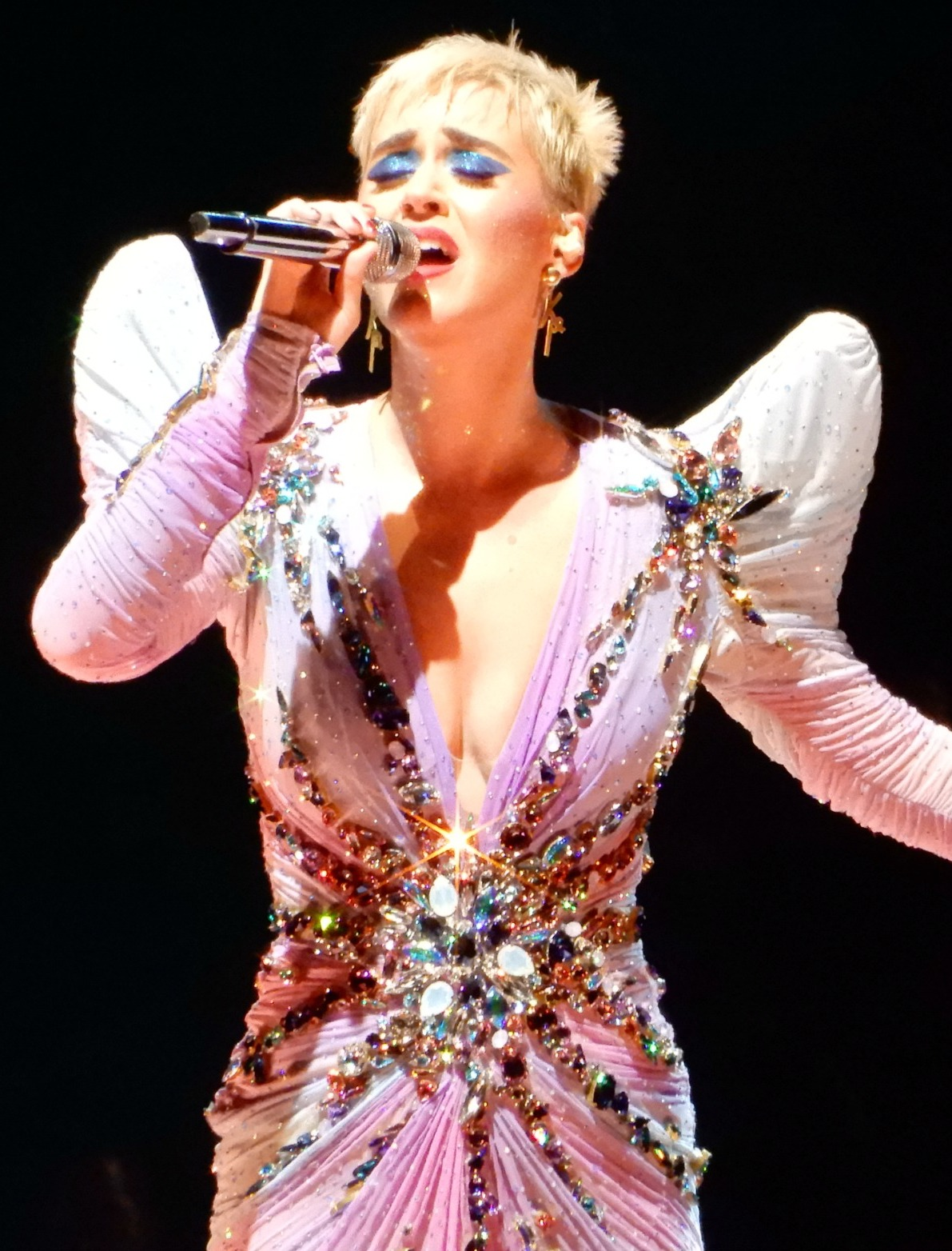 Firework Encore